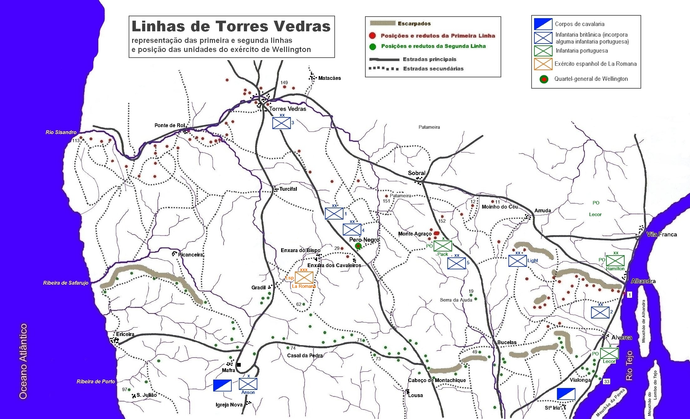 Representation of first and second lines of Torres Vedras and the positions originally occupied by units of the army of Wellington.